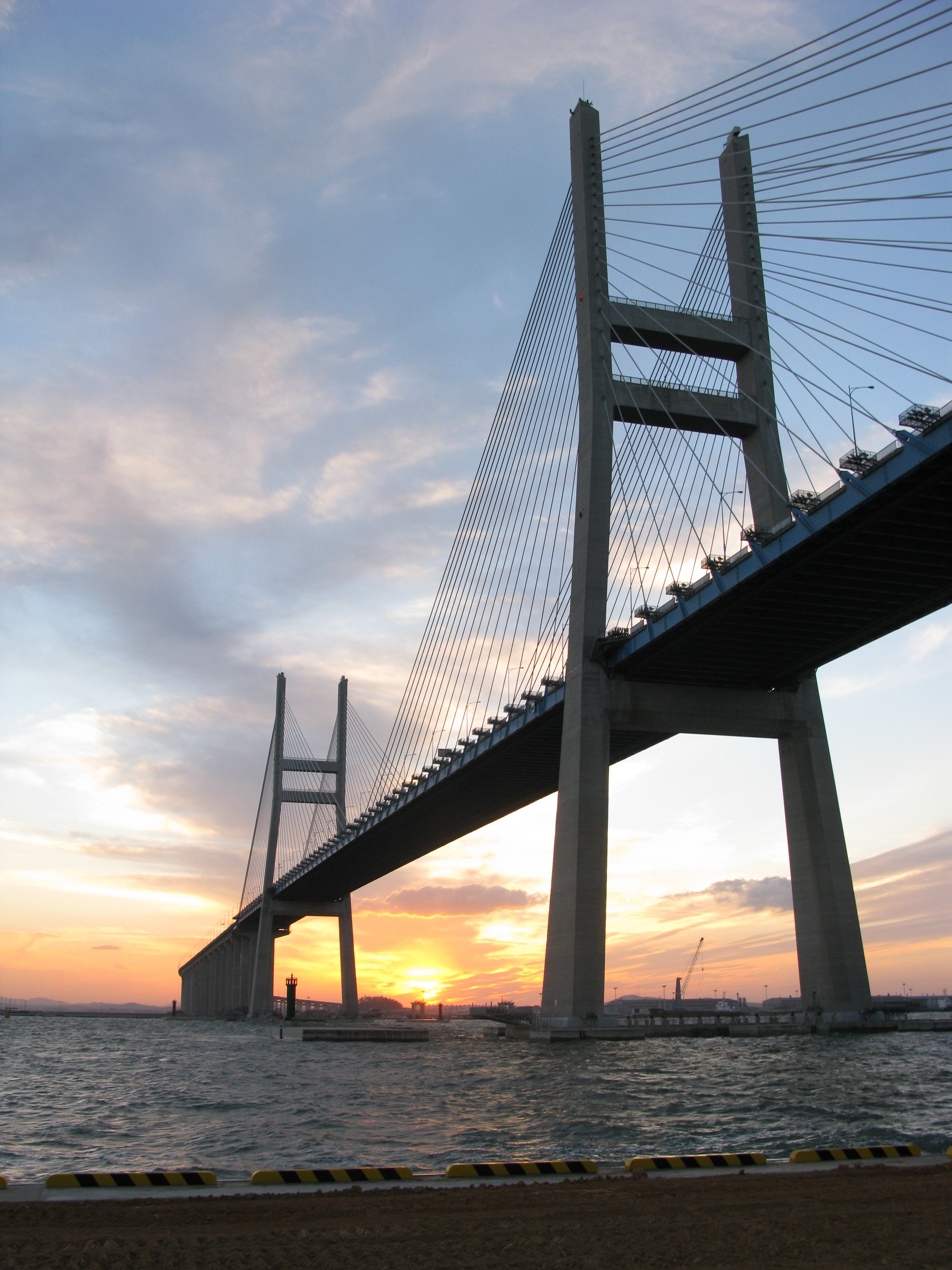 Yellow-sea-bridge